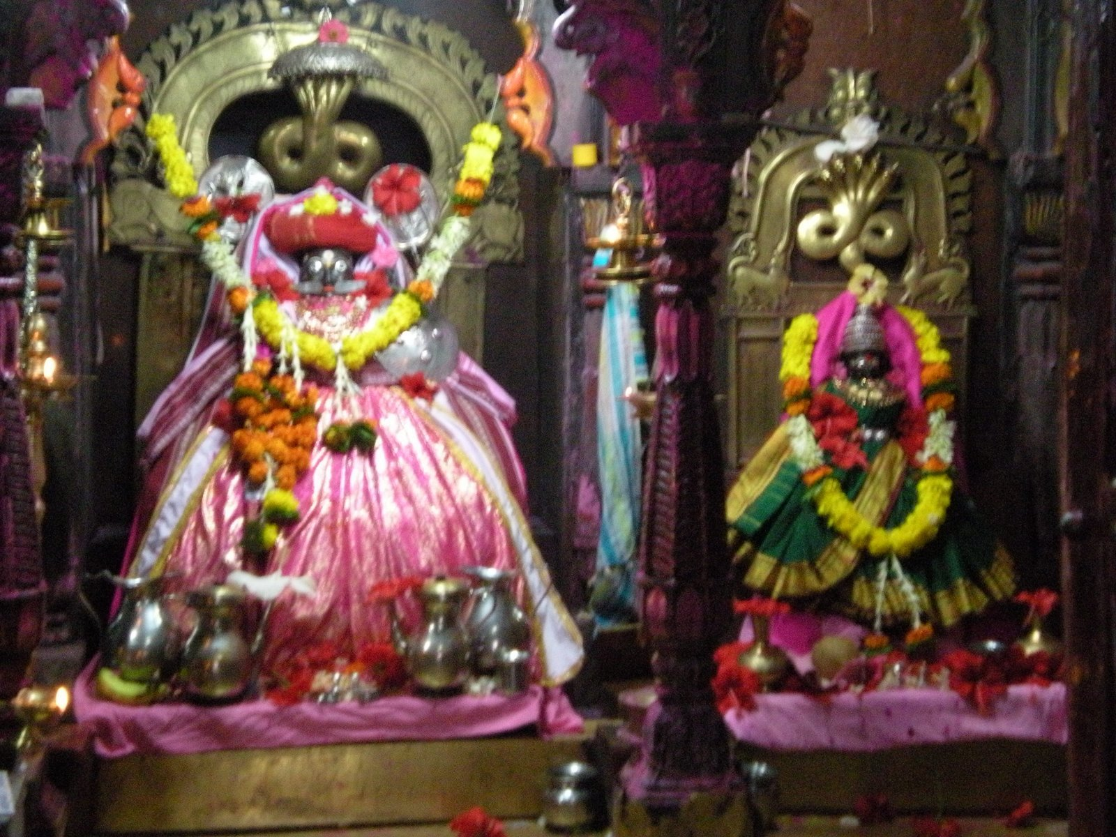 Idol of Sidhhanath and Jogeshwari in Sidhhanath temple, Mhaswad.